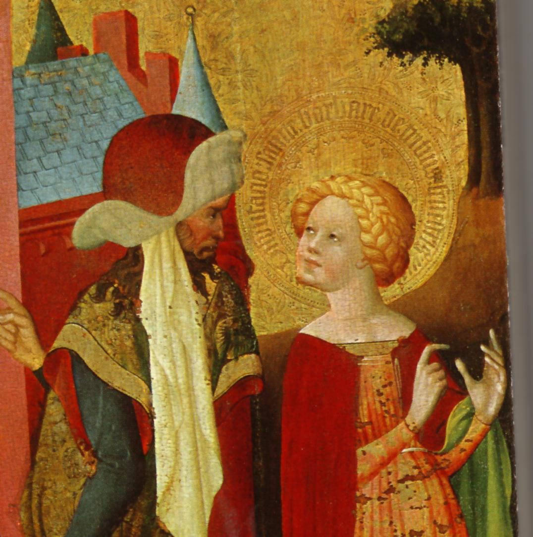 a detail from Barbara altars first painting by Master Francke; Barbara explaining the third window and counting three with her fingers